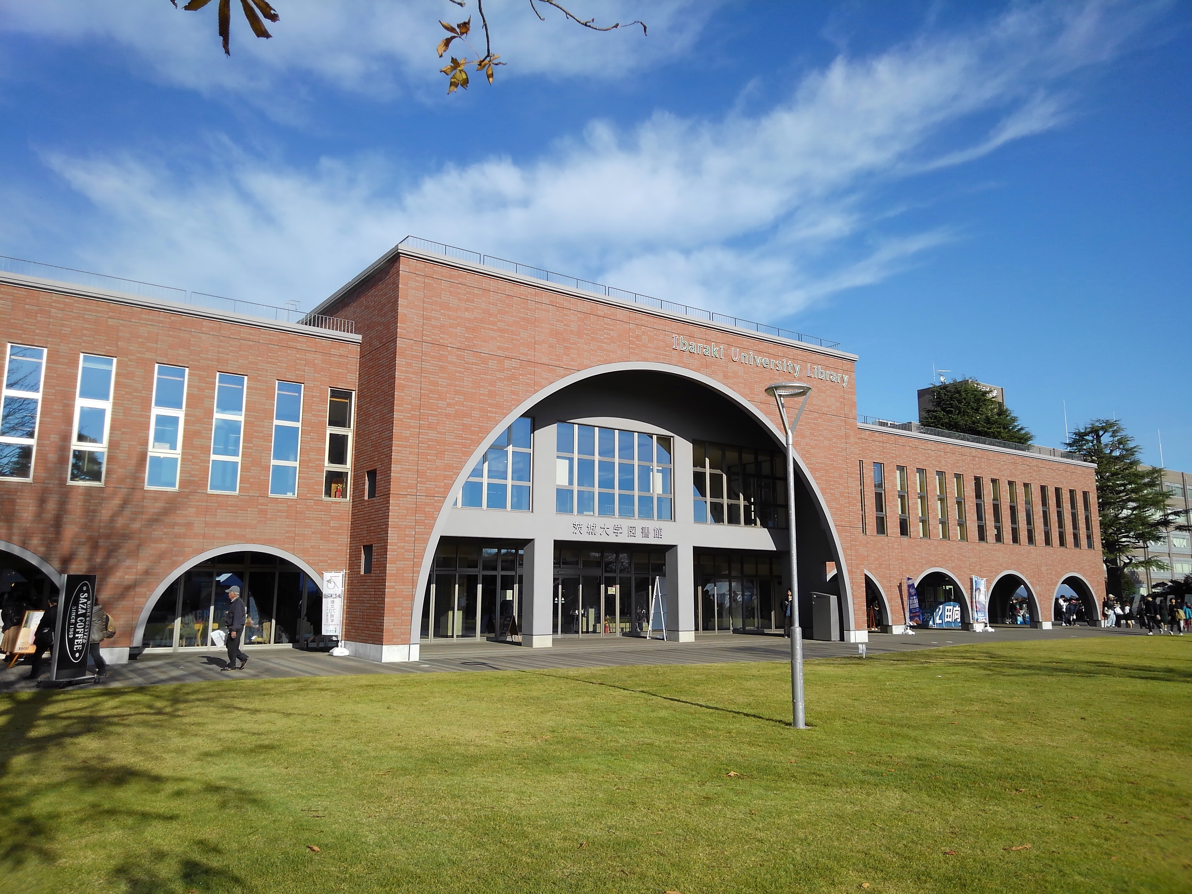 Ibaraki University Library at Mito Campus located in Mito, Ibaraki, Japan.